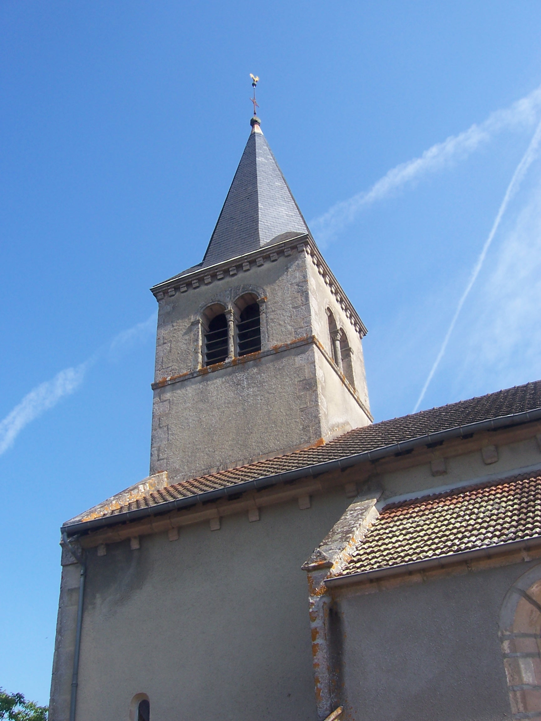 Eglise de La Tagnière